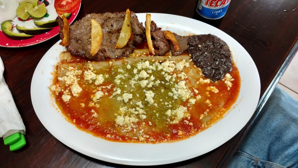 Gastronomia